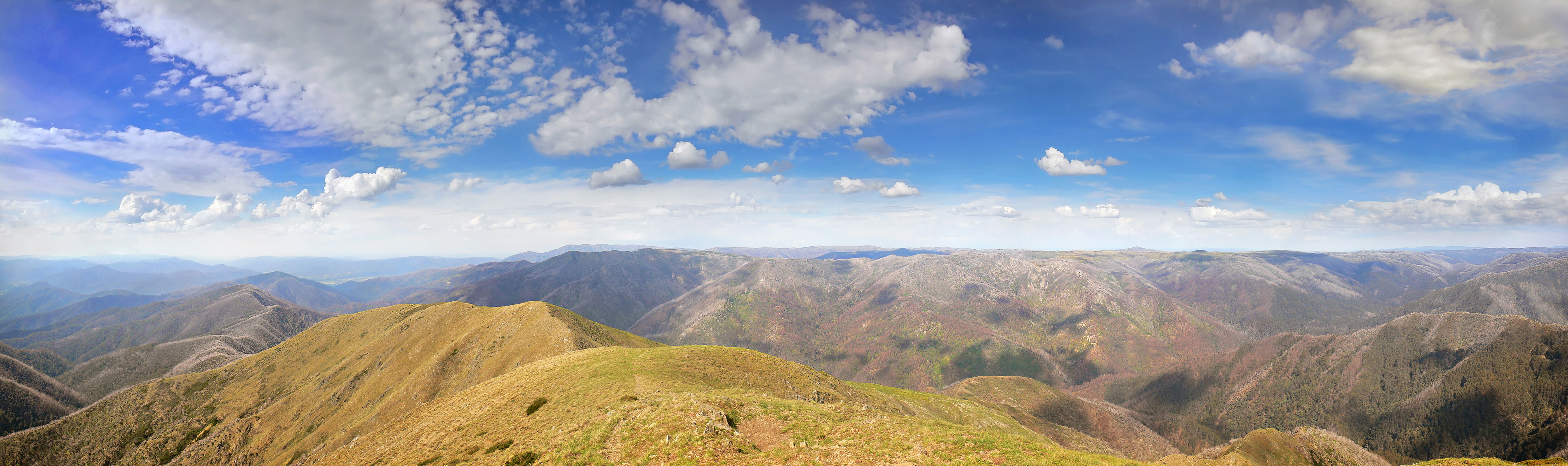 The view from the peak of Mt. Feathertop, 36°54′S 147°08′E / 36.9°S 147.133°E, facing North East, shows the Fainters and the Niggerheads.